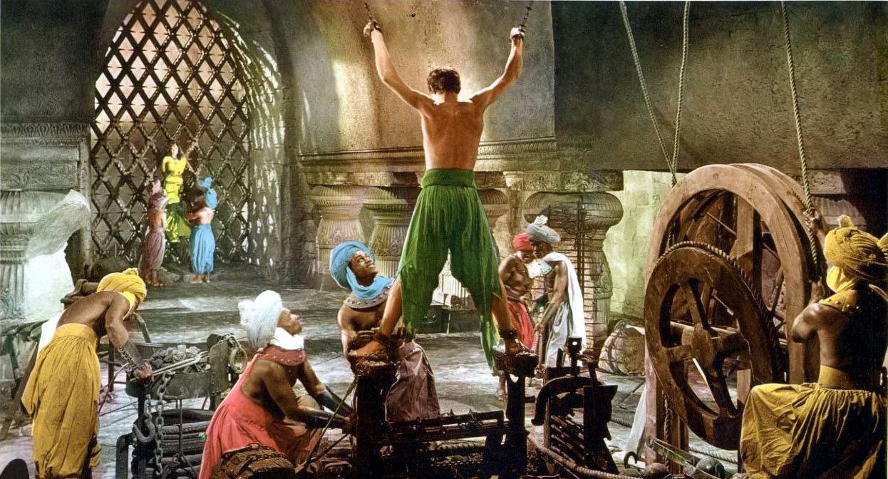 Cropped and edited lobby card for Alexander Korda's The Thief of Bagdad (United Artists, 1940). Image is presumed to be in the public domain as no copyright notice is in evidence.